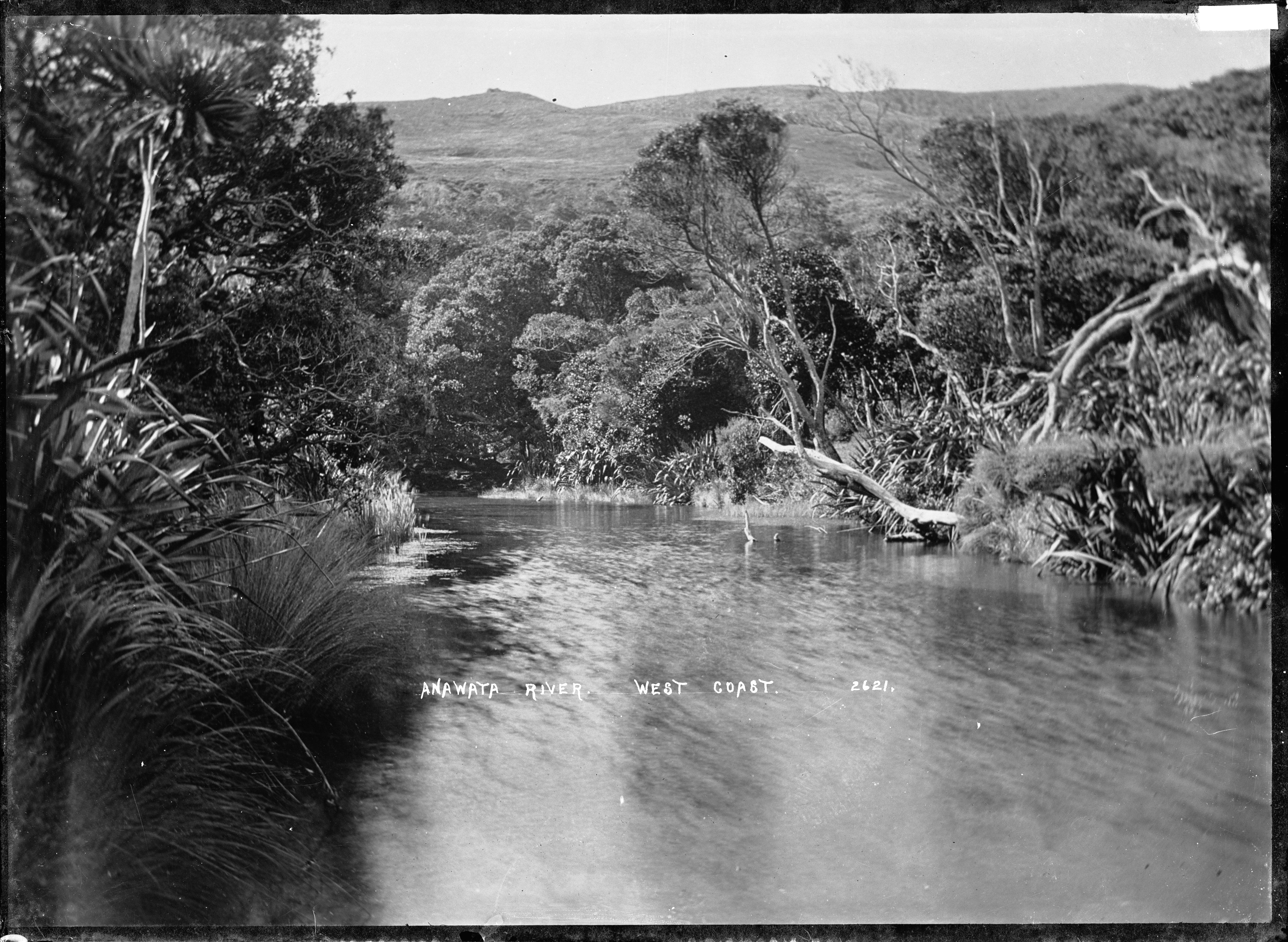 Anawhata River and native bush. Photograph taken by William A Price between 1900 and 1930. Inscriptions: Inscribed - Photographer's title on negative -bottom centre: Anawata River. West Coast. 2621. Quantity: 1 b&w original negative(s). Physical Description: Dry glass plate negative 4.5 x 6.5 inches Anawhata River and native bush. Price, William Archer, 1866-1948 :Collection of post card negatives. Ref: 1/2-001834-G. Alexander Turnbull Library, Wellington, New Zealand.